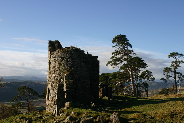 Caisteal Gorach, on Tulloch Hill above Dingwall. 'Castle' near Drynie Farm. Not marked on OS Landranger map for some reason.